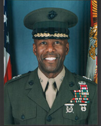 Clifford L. Stanley